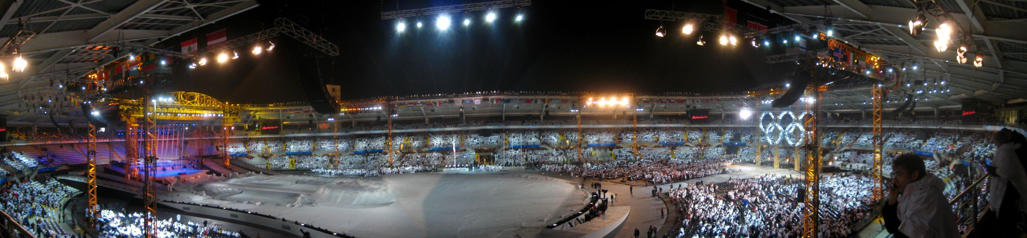 A massive composite of the whole stadium just before the ceremonies began.